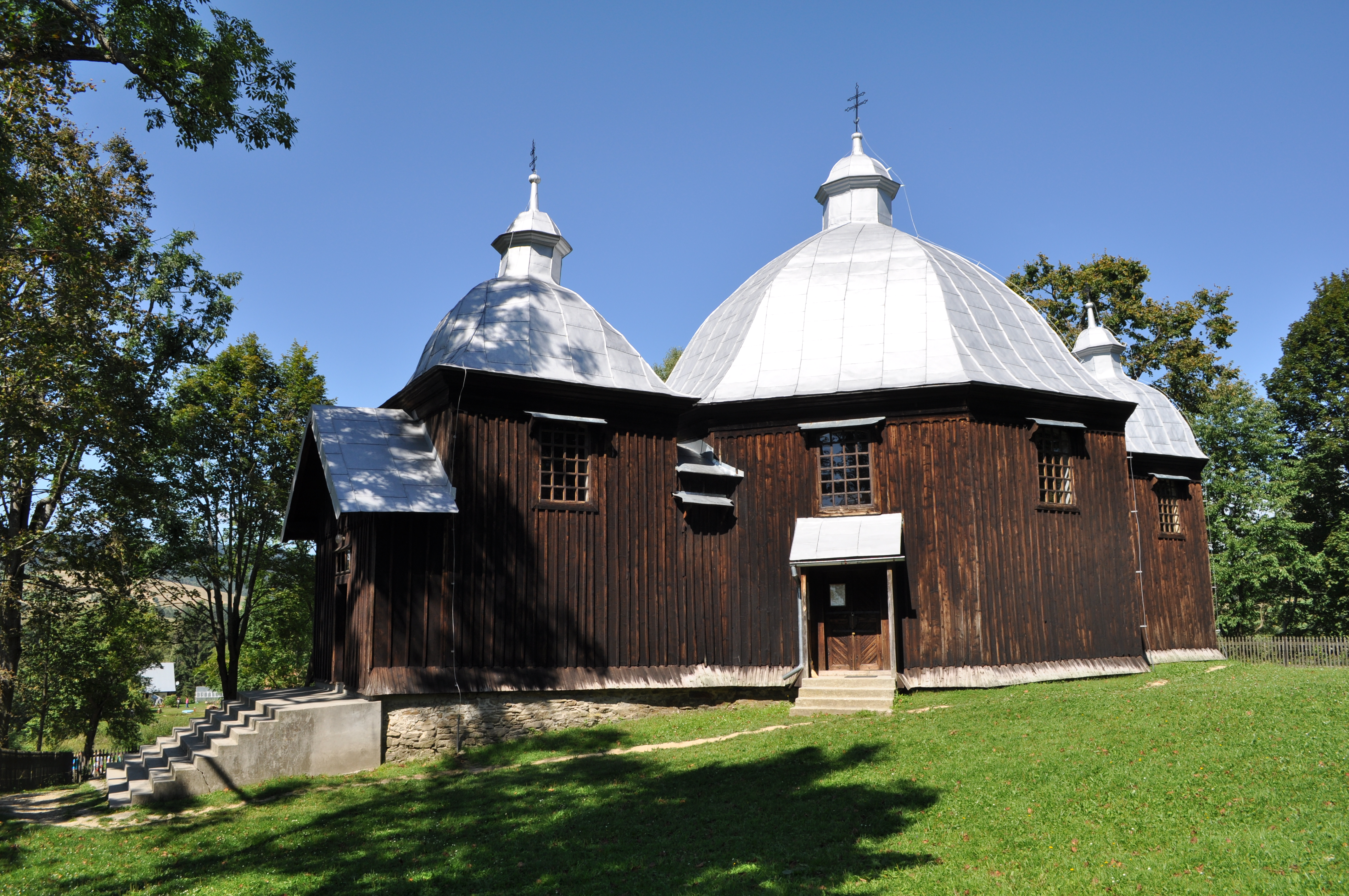 Saint John the Baptist church in Michniowiec, Poland (former Greek Catholic church of the Nativity of the Virgin Mary)